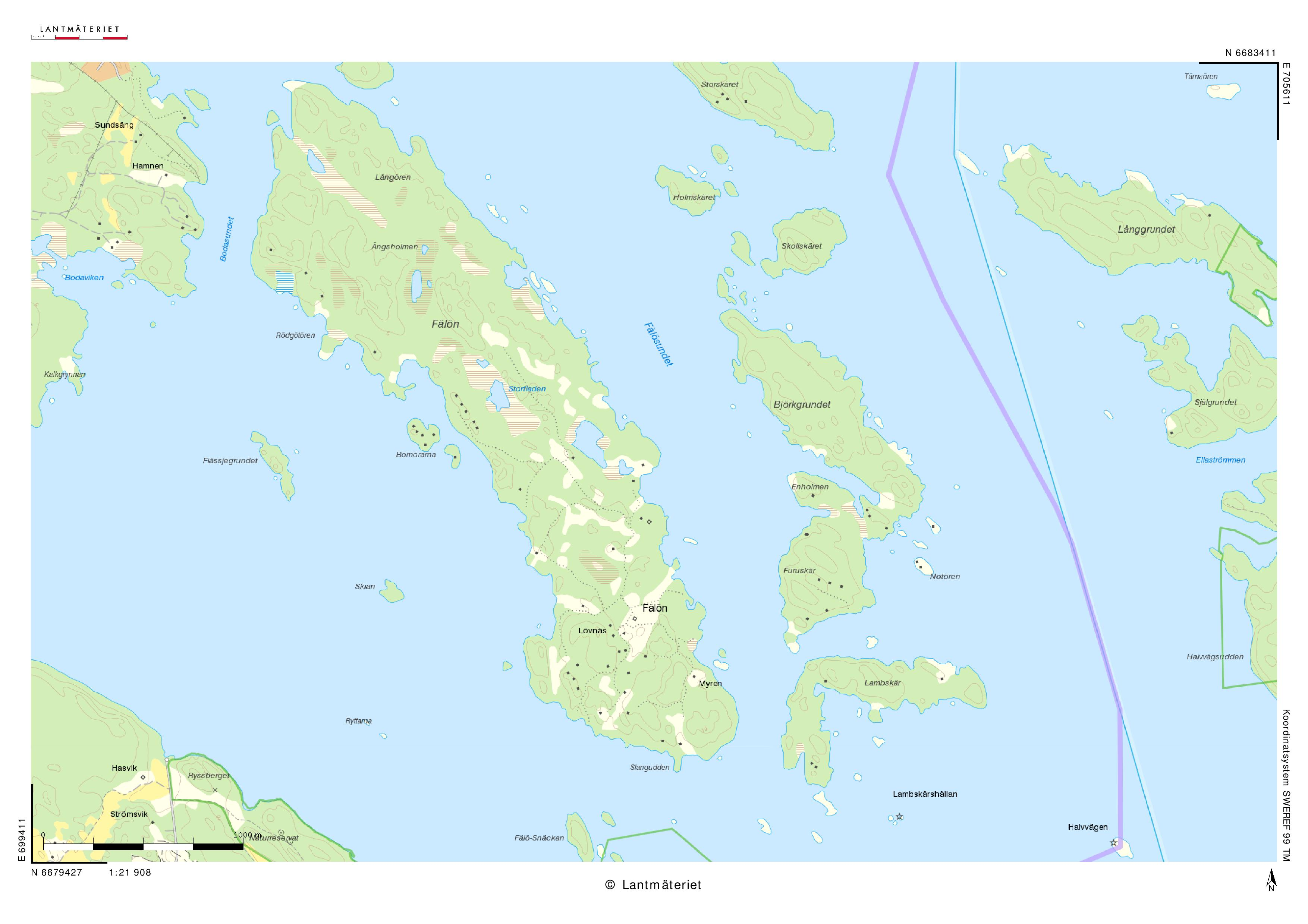 Map of Fälö by